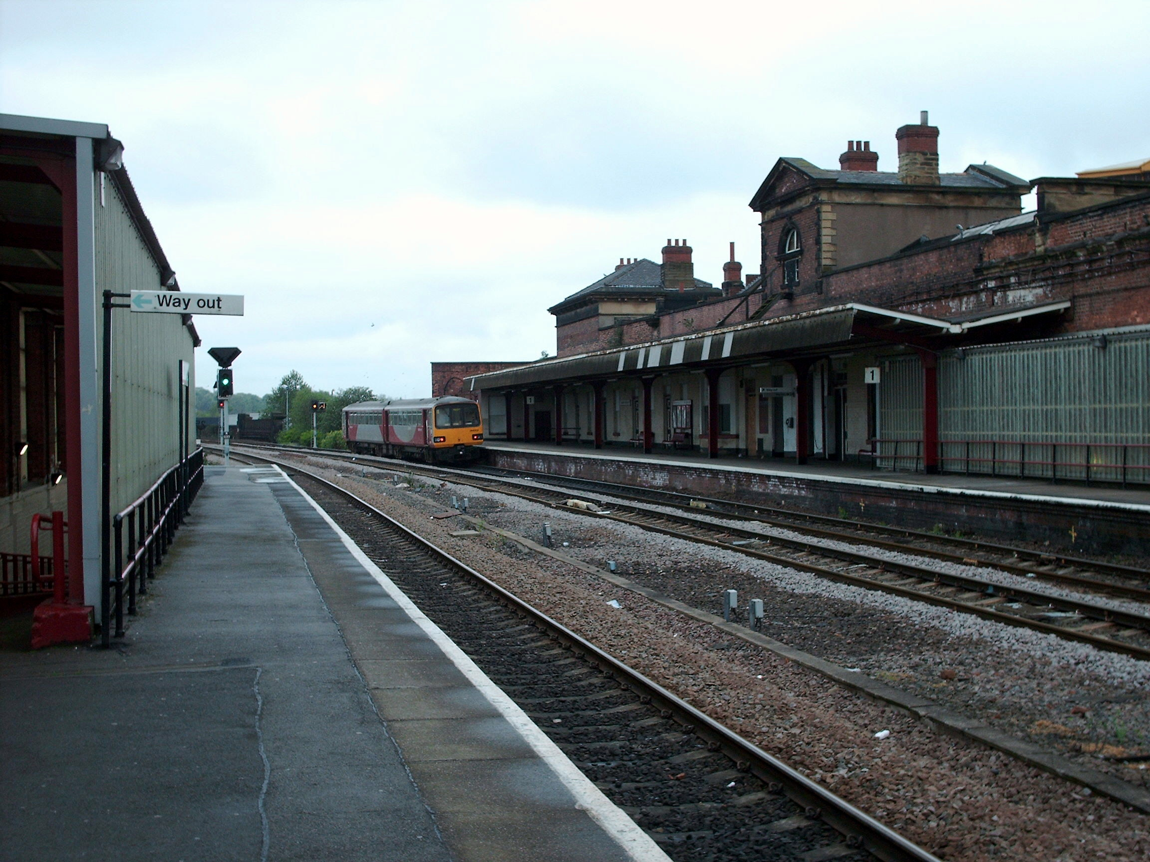 Train at platform 1 of Wakefield Kirkgate railway station, West Yorkshire, England.